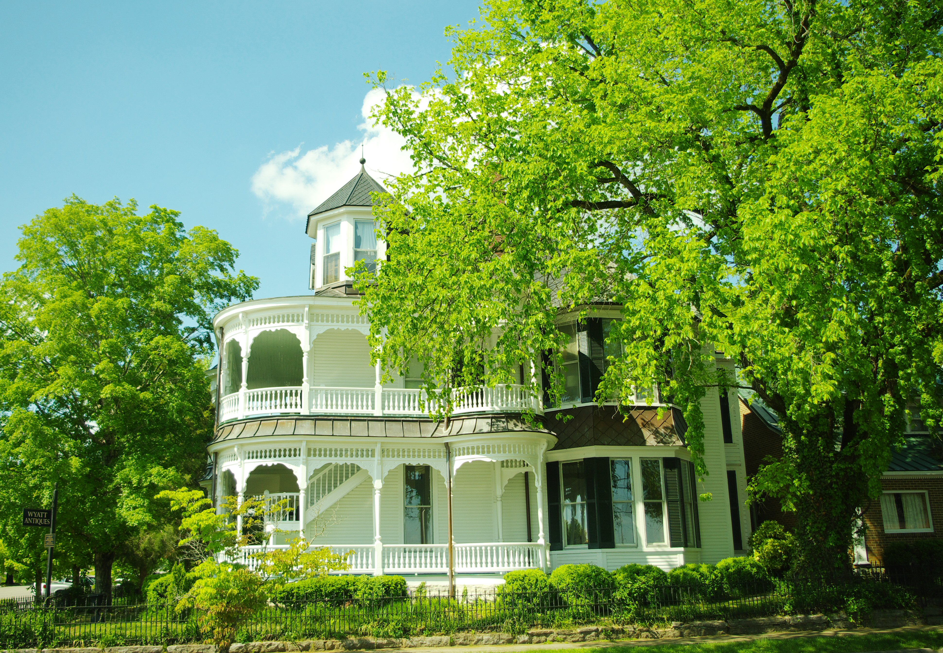 The Douglas-Wyatt House in Fayetteville, Tennessee, United States. Built c. 1893, this house is now listed on the National Register of Historic Places.